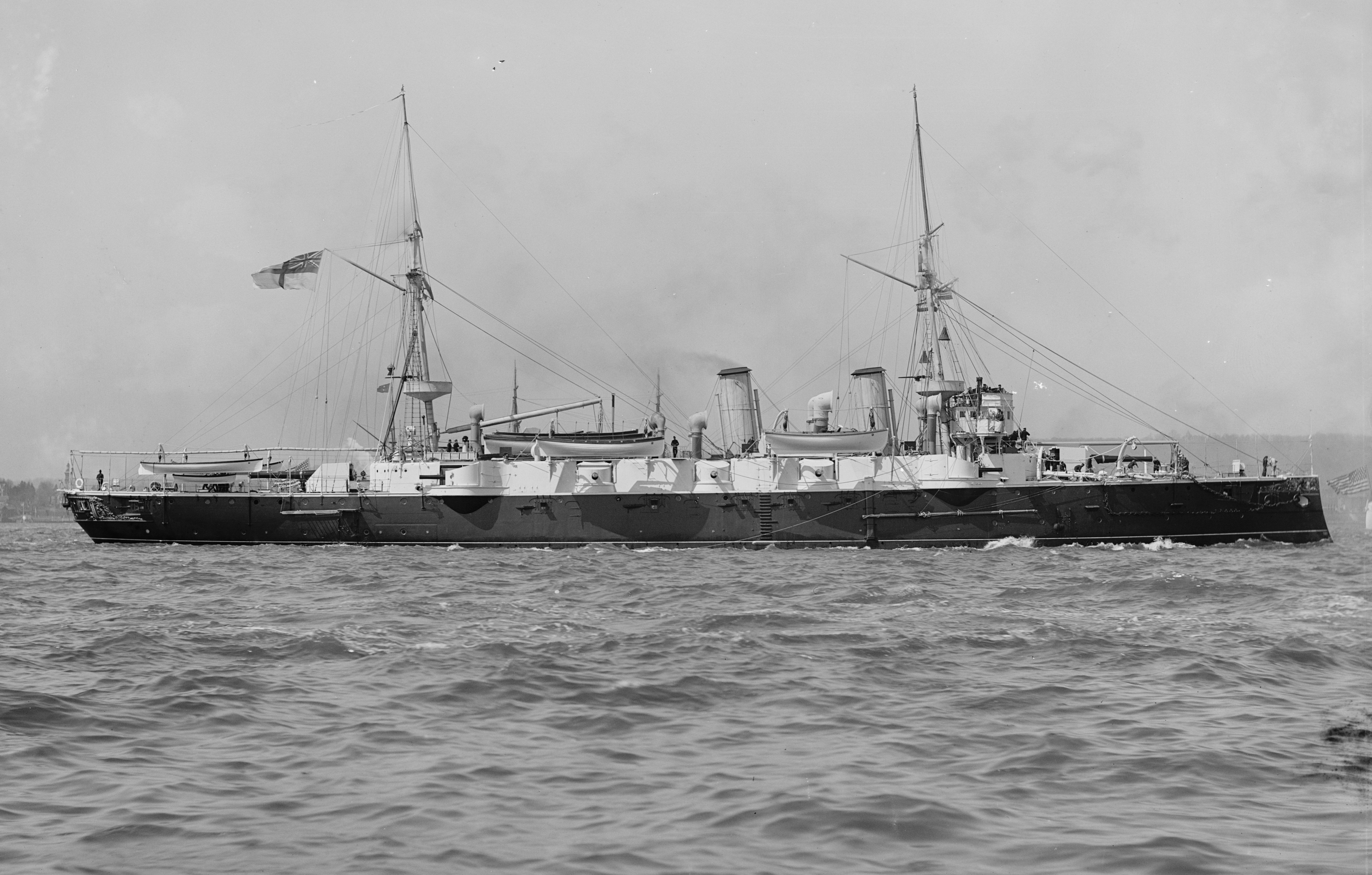 The Royal Navy Orlando-class cruiser HMS Australia visiting the United States in the 1890s.